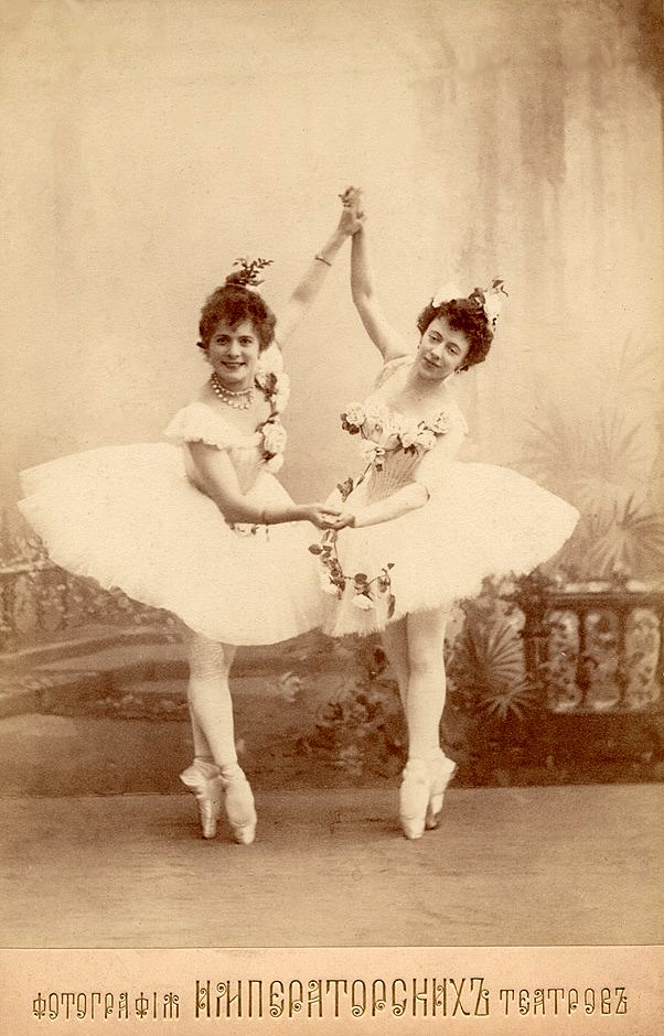 Photographic postcard of the ballerinas Pierina Legnani as Medora (right) and Olga Preobrajenskaya as Gulnare (left) in the scene Le jardin animé from the ballet Le Corsaire.